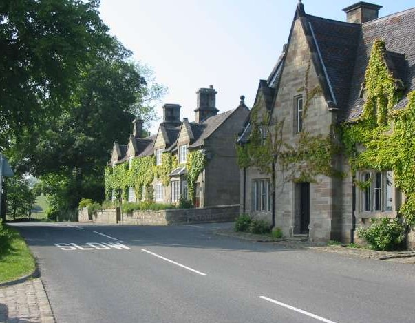 Cottages at Farley These cottages at Farley appear to enjoy a quiet and idyllic location next to Farley Hall in the Staffordshire countryside. However, just a few yards down the road is the Alton Towers theme park with its associated noise and traffic.